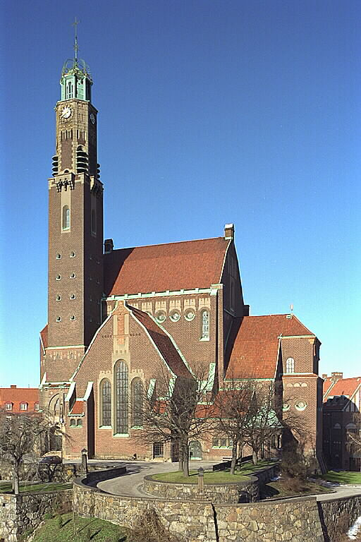 Picture of Engelbrekt Church (Swedishː Engelbrektskyrkan) in 1998, published by Swedish National Heritage Board (Swedishː Riksantikvarieämbetet).